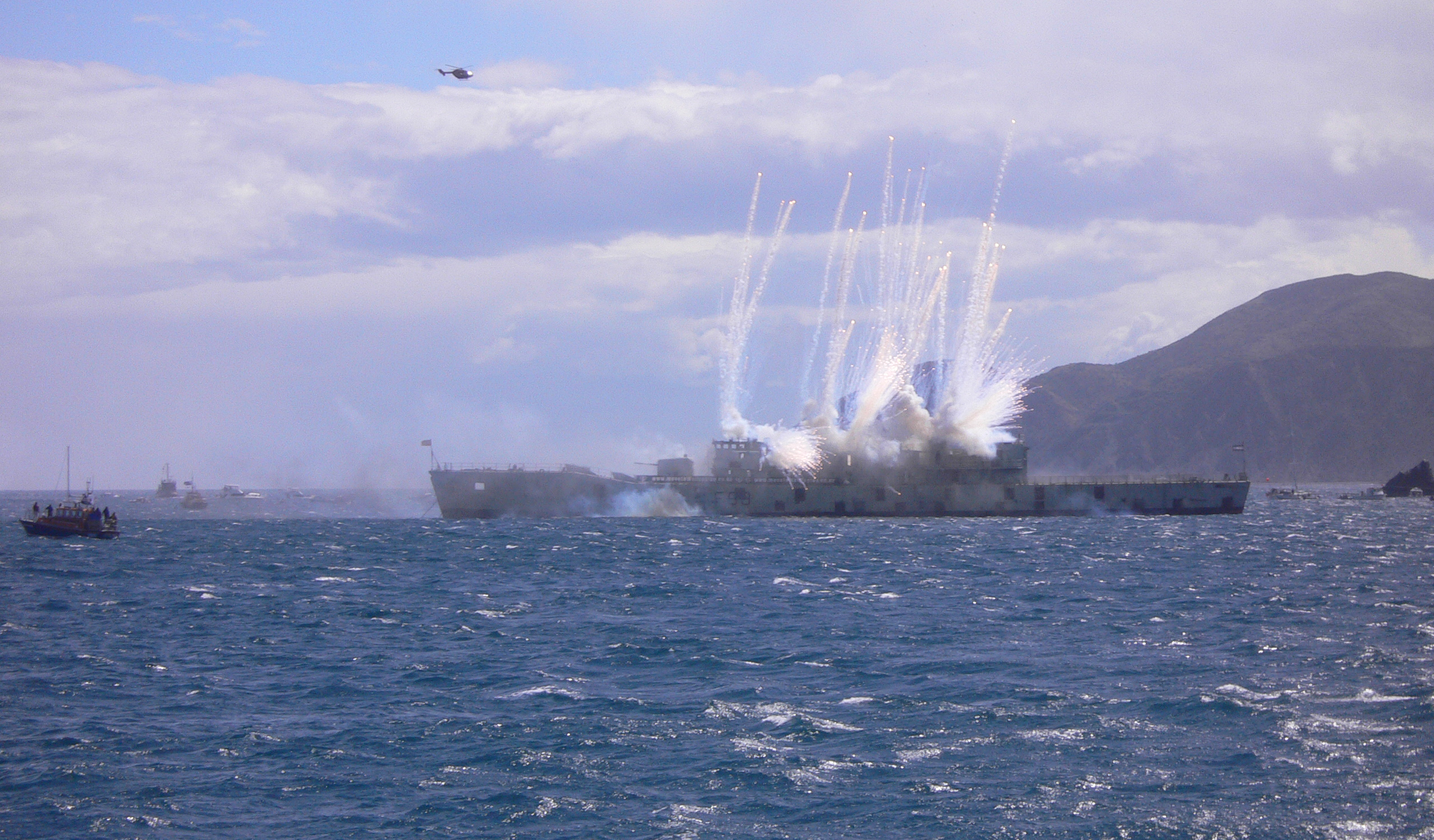 F69/HMNZS Wellington being sunk. Photo taken by John Lewis on a Lumix FX-7 on Sunday 13th of November, 2005.